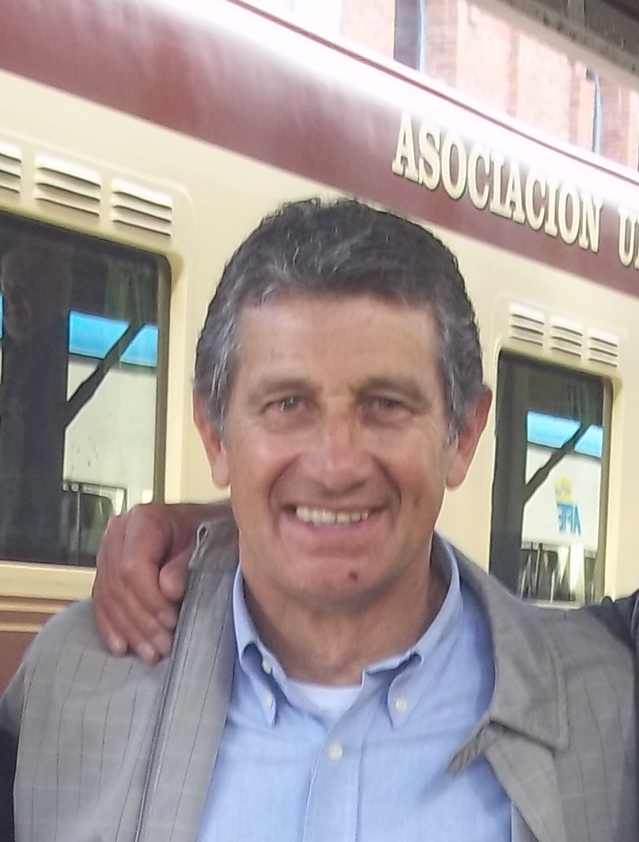 Former player Fernando Morena